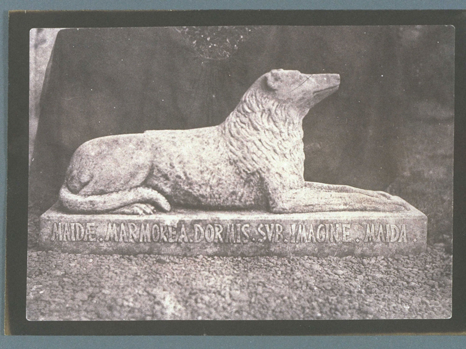 Collection of (National Media Museum (William Henry Fox Talbot, 1800-1877, From 'Sun Pictures in Scotland' published in 1845) We're happy for you to share this digital image within the spirit of The Commons. Certain restrictions on high quality reproductions of the original physical version of apply though; if you're unsure please visit the National Media Museum website. For obtaining reproductions of selected images please go to the Science and Society Picture Library.